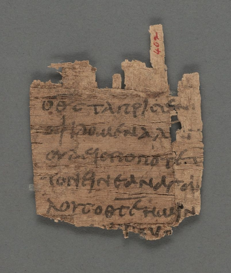 Papyrus 9 - P. Oxy. III 402 - Houghton Library MS Gr SM3736 - First Epistle of John, 4,11–12,14–17 - recto